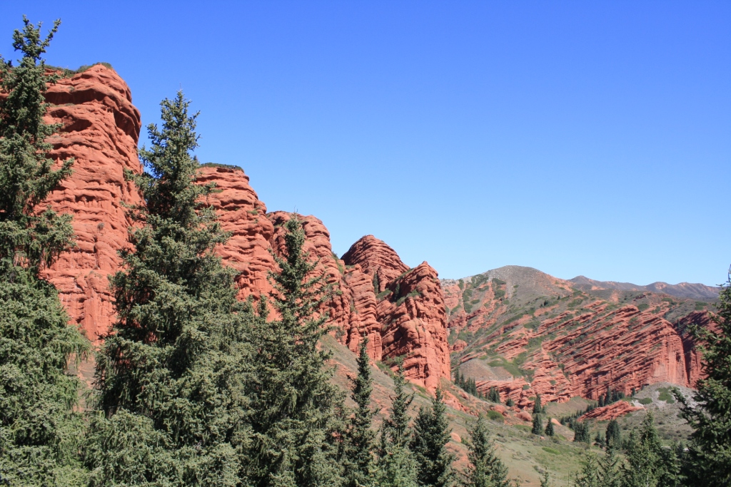 Jety-Oguz (Seven Bulls) is a legendary Rock formation in the Issyk-Kul Province of Kyrgyzstan, not far from Karakol.